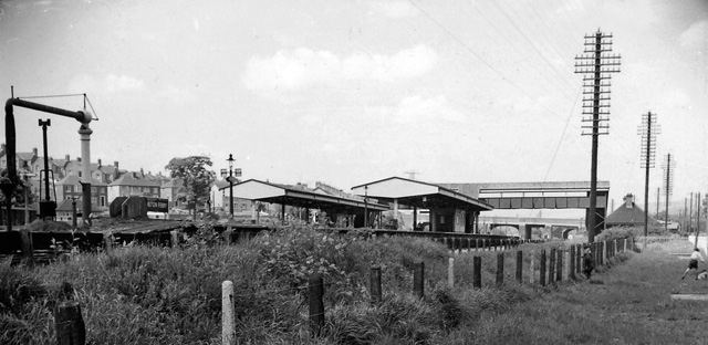 Briton Ferry Station. View northward, towards Neath and Swansea; ex-GWR South Wales main line, London/Bristol etc. - Cardiff - Swansea etc. This station, which itself was a replacement (8/7/35) of Briton Ferry West 600 yards south, was closed to passengers on 2/11/64, to goods on 6/9/65. However, another new station was later built a short distance to the north and opened on 1/6/94!